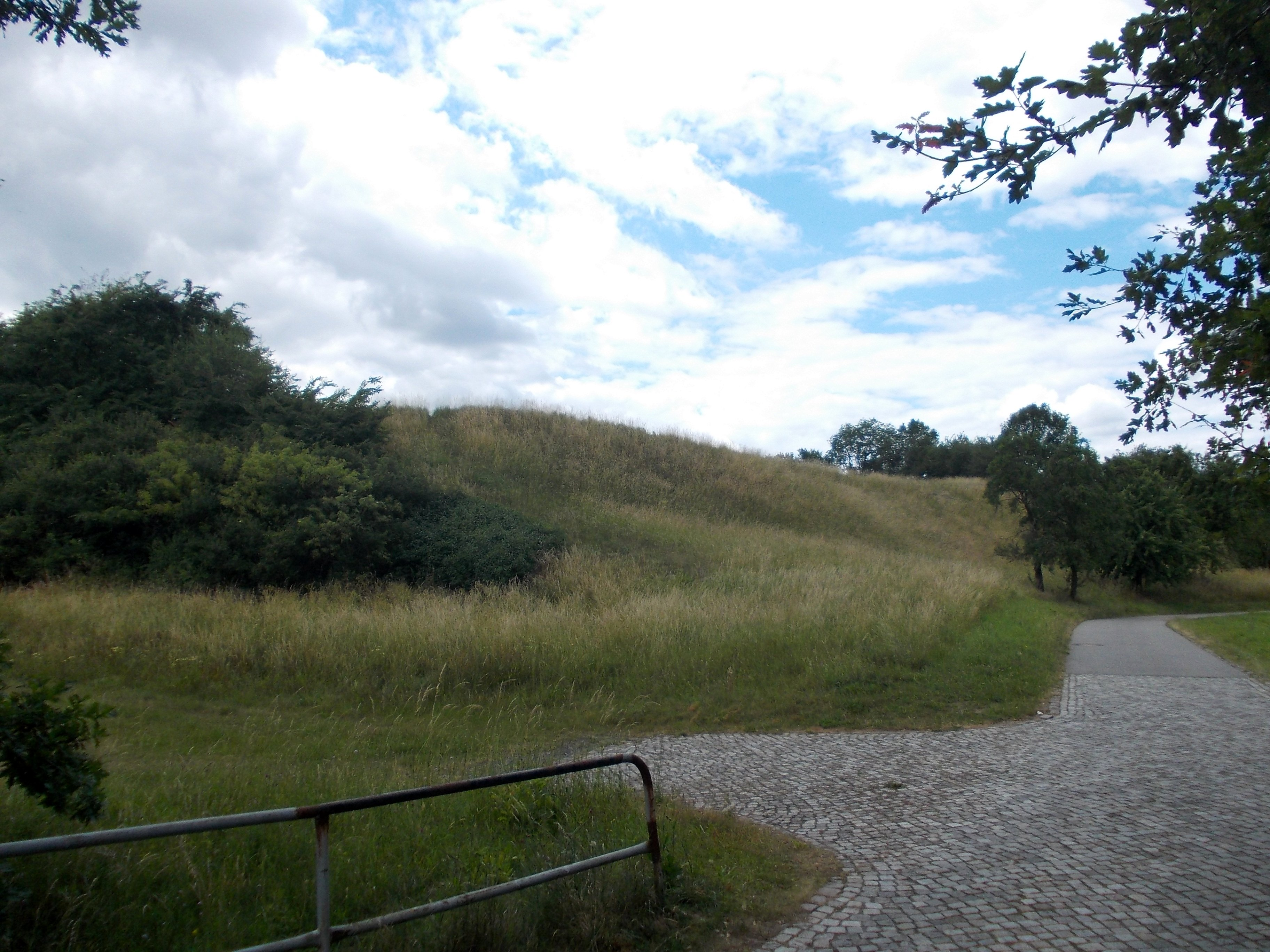 Leckwitz sconce, a Slavic hill fort (Nünchritz, Meissen district, Saxony)